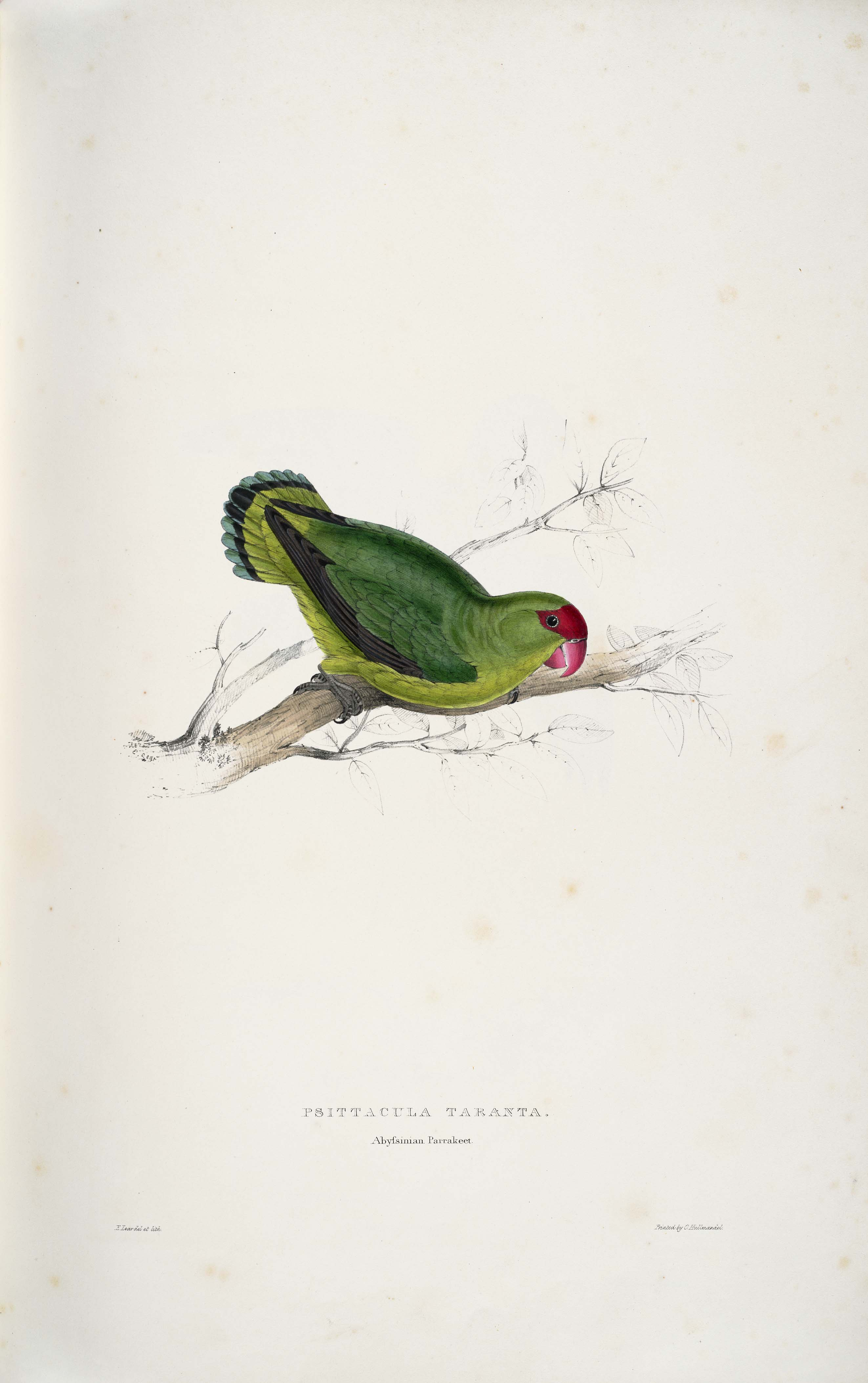 A painting of a male Black-winged Lovebird (also known as Abyssinian Lovebird) (originally captioned "Psittacula taranta. Abyssinian parrakeet") by Edward Lear 1812-1888.